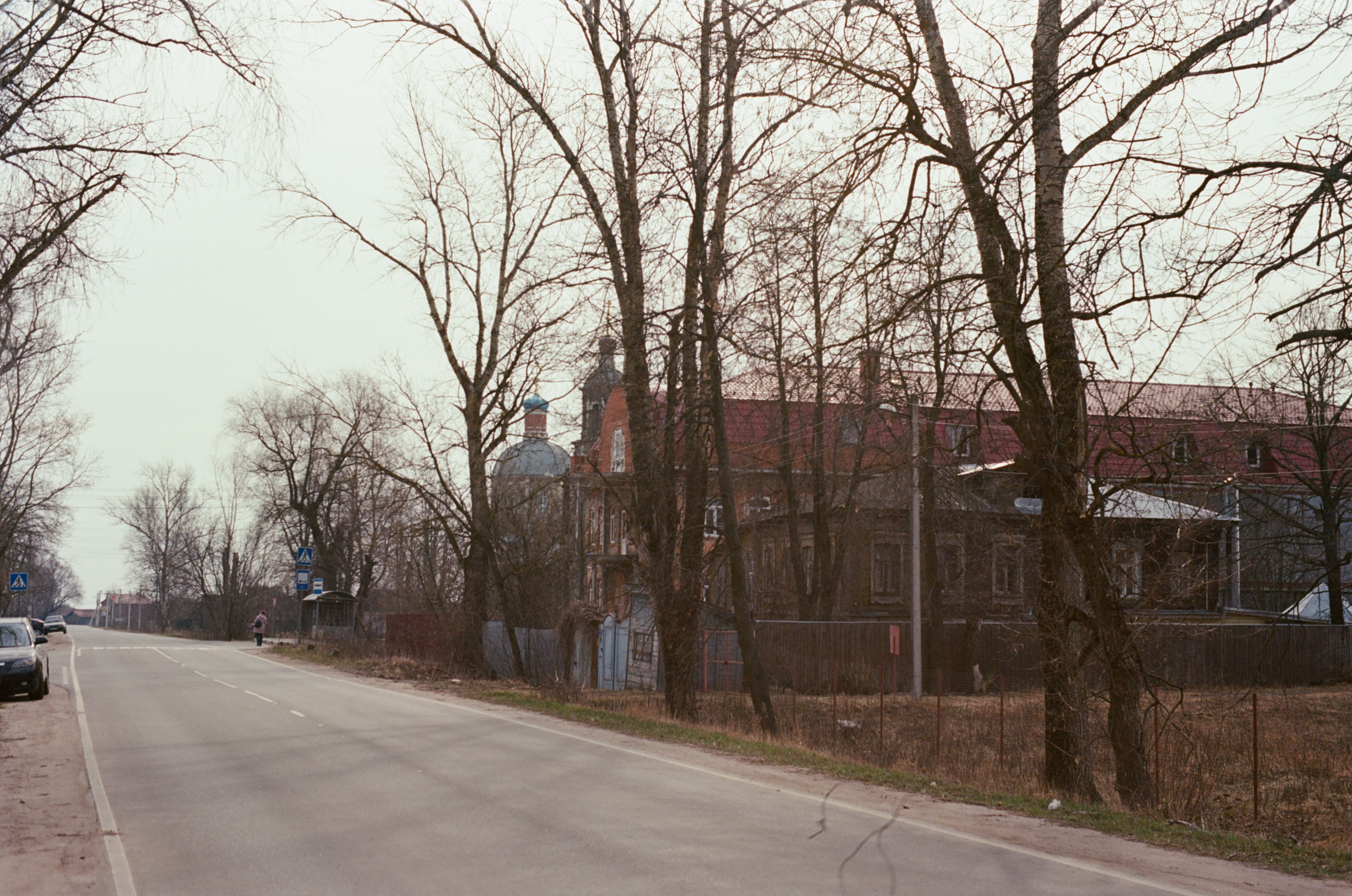 Ricoh KR-10X Kodak Ektar 100